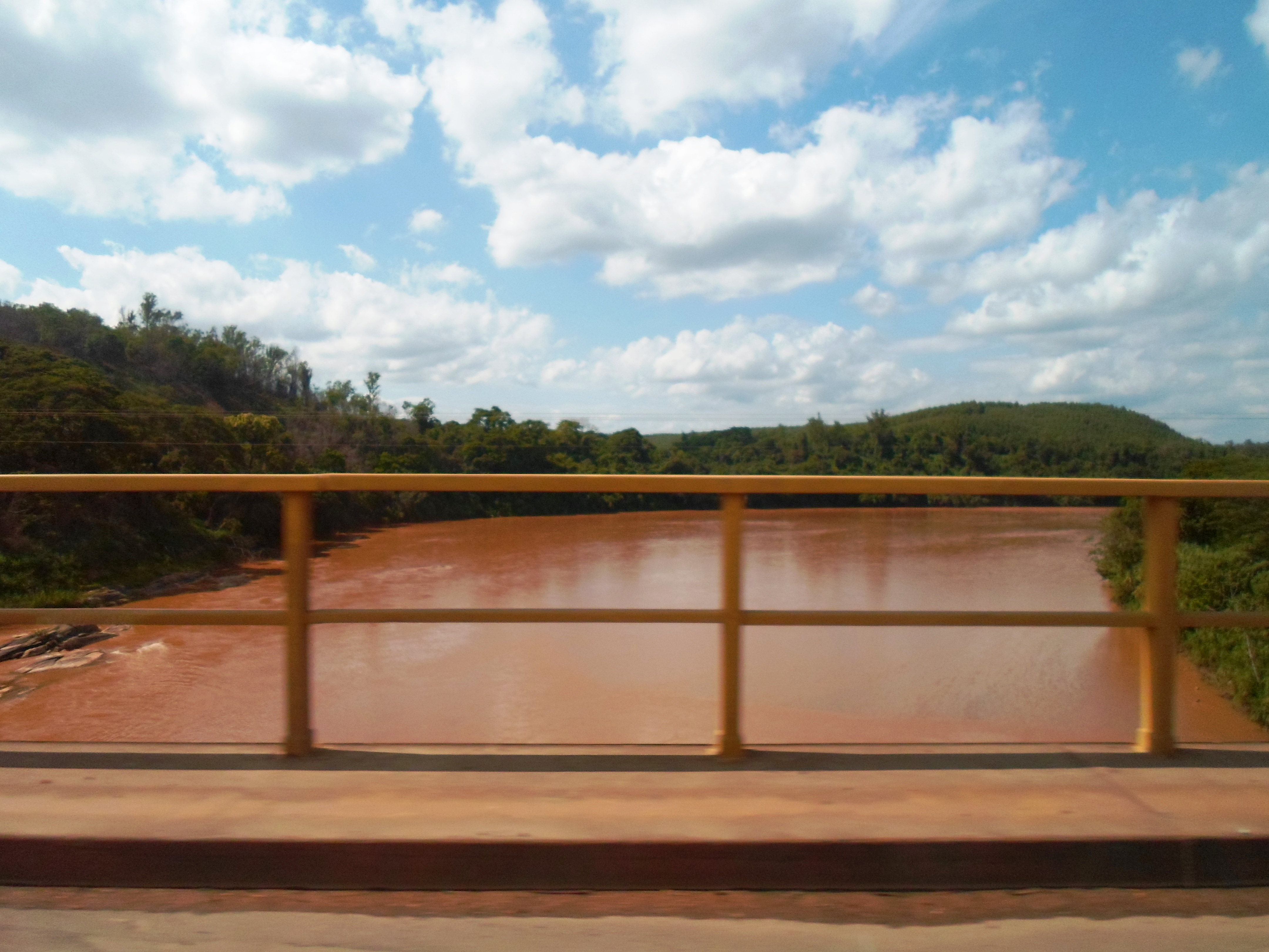 The Doce River between Caratinga and Santana do Paraíso, Minas Gerais, Brazil.